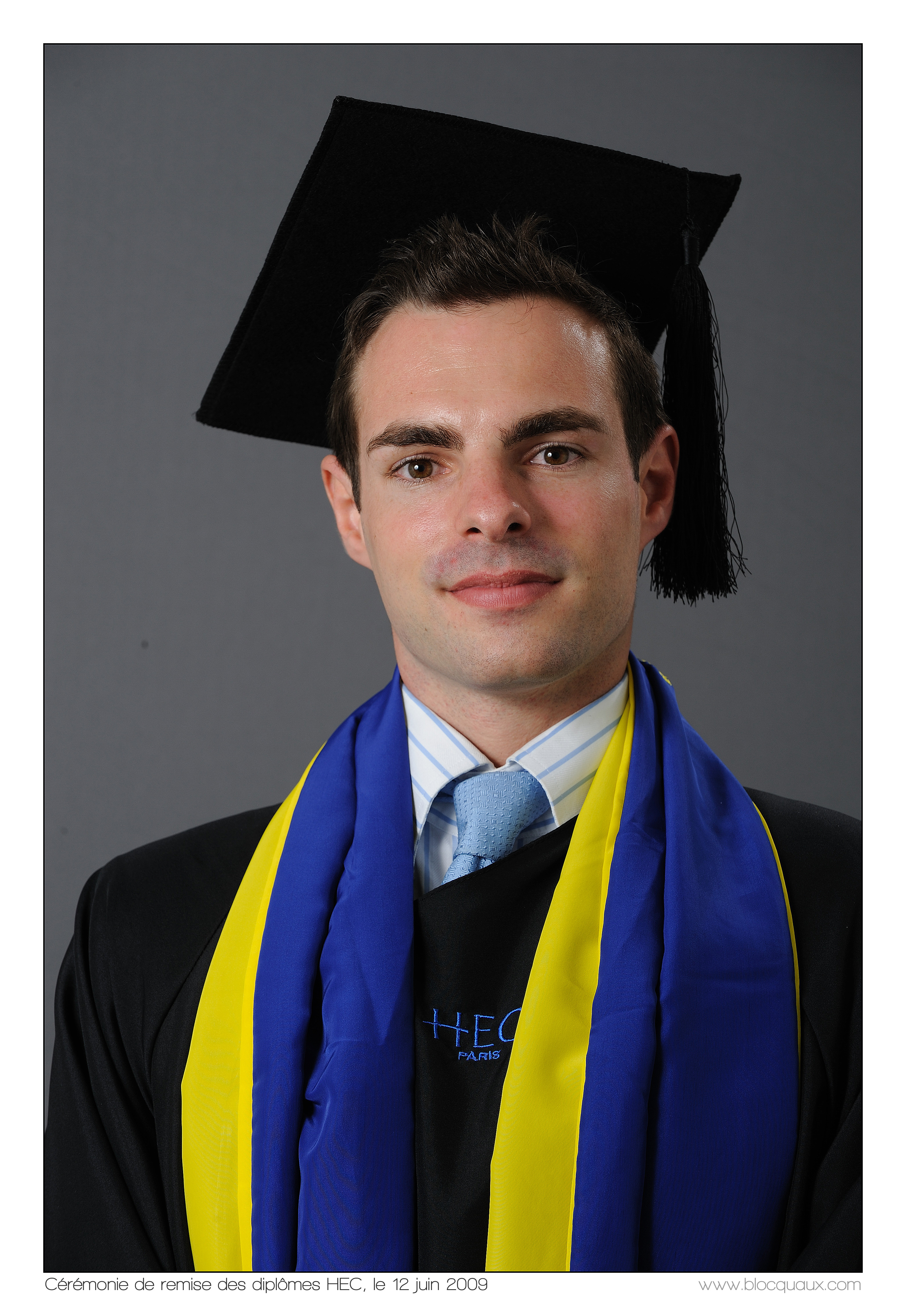 Garry Dorr diplomé d'HEC